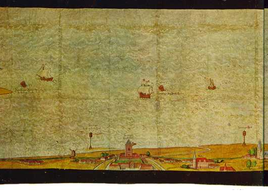 Ritzebüttel in Hamburg Elbe river map by Melchior Lorichs created 1568, for an imperial court case to prove Hamburg's claims on the Elbe river.